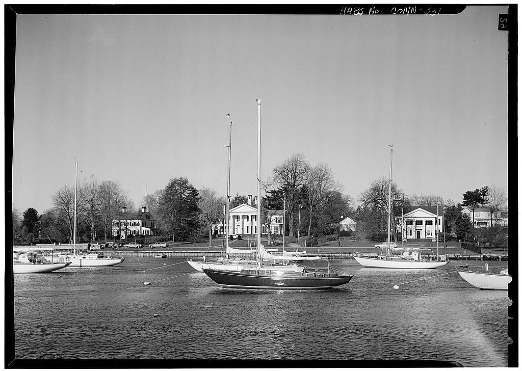 Soutport Harbor, CT, in 1966